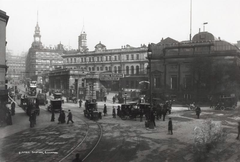 Liverpool Central railway station in 1911.